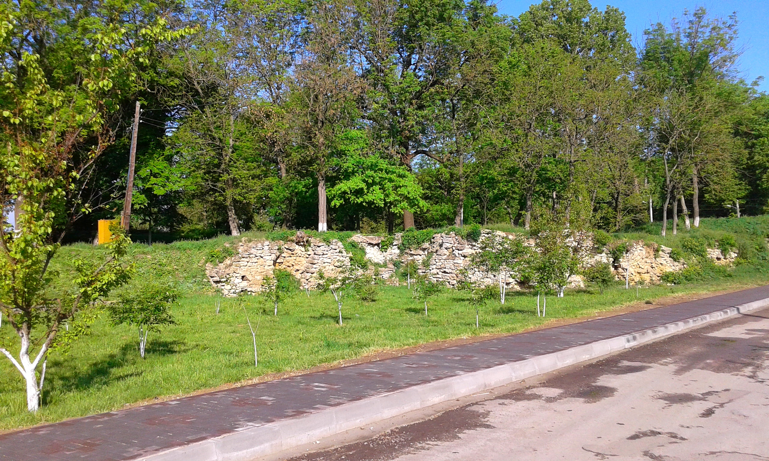 (01) OLD BAR FORTRESS TOWN OF BAR REGION OF VINNYTSIA STATE OF UKRAINE PHOTOGRAPH BY VIKTOR O LEDENYOV 20160509